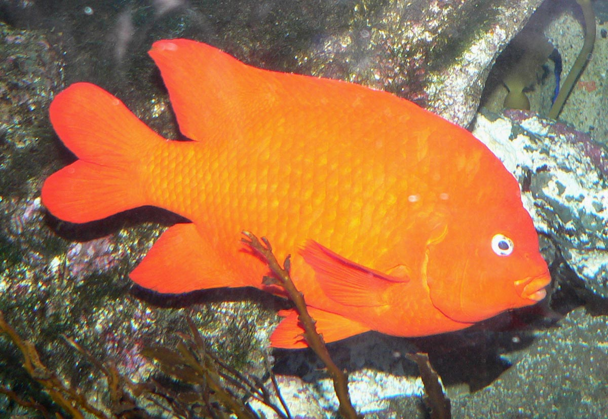 Photo of Hypsypops rubicundus (garibaldi) at the Birch Aquarium in San Diego